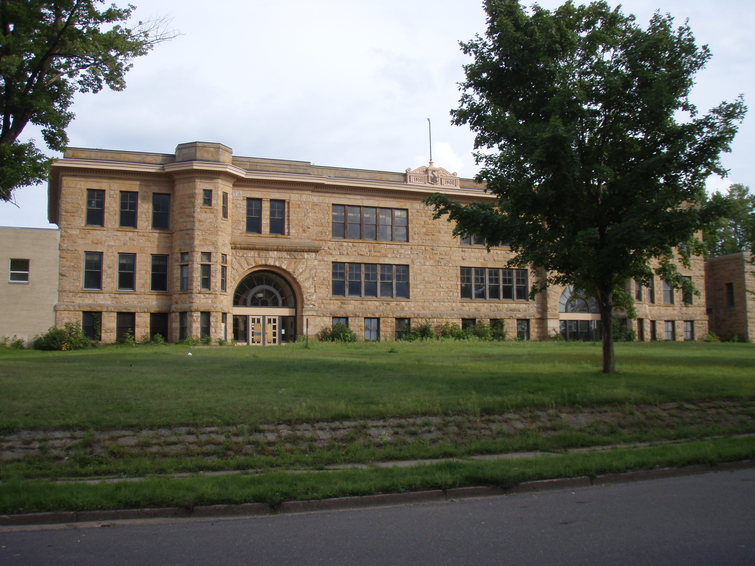 Sandstone School in Sandstone, Minnesota, listed on the National Register of Historic Places.